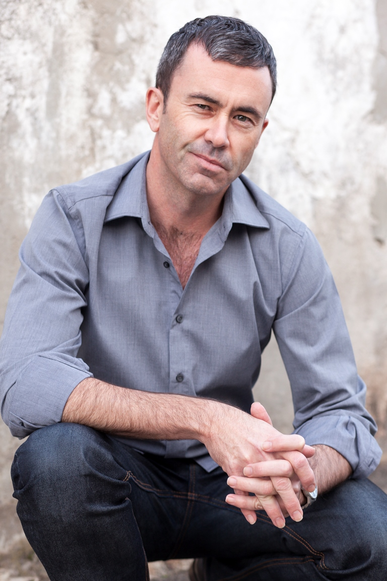 Adam Ford is host of Tour the World.